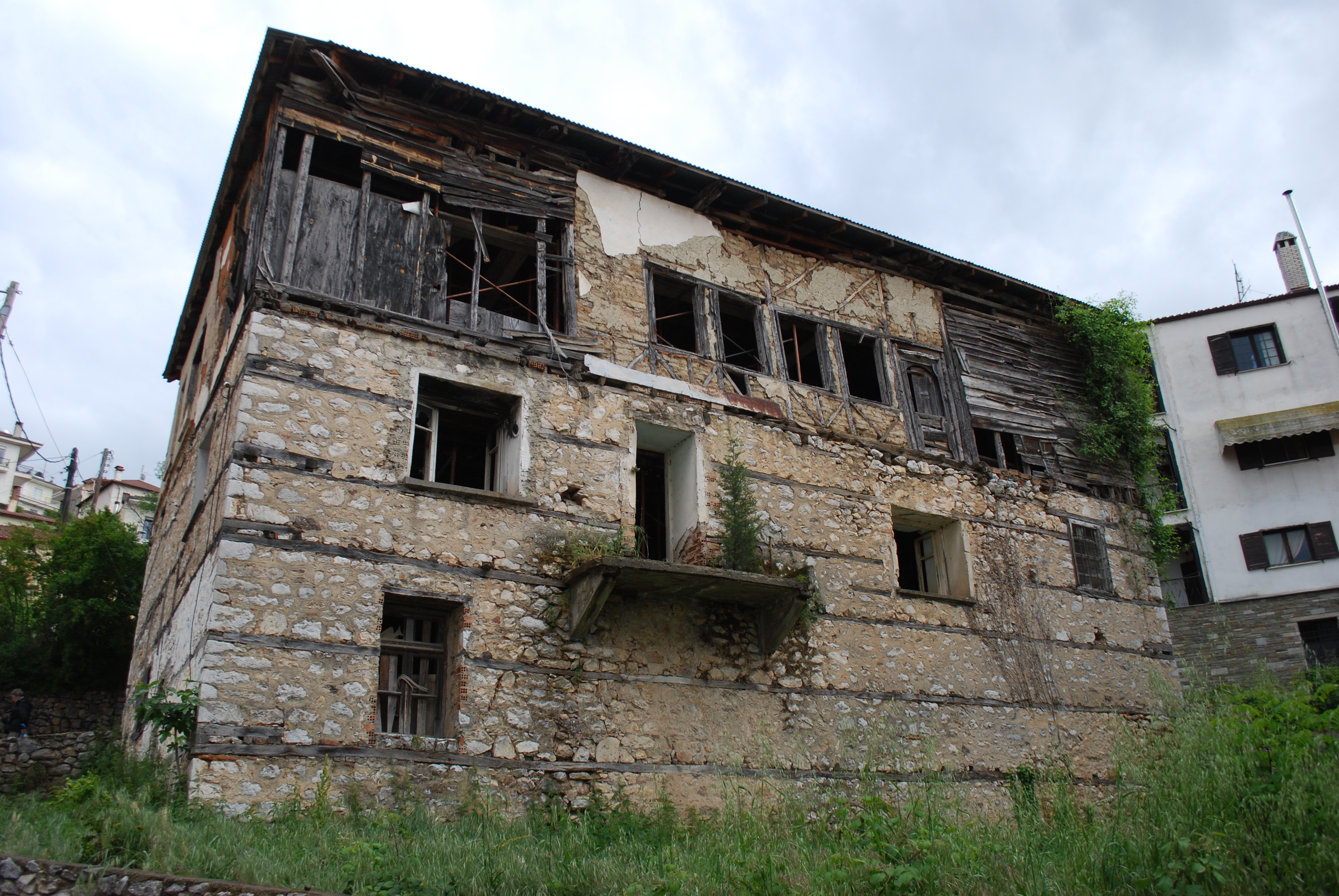 Christopoulos Mansion in Kastoria.